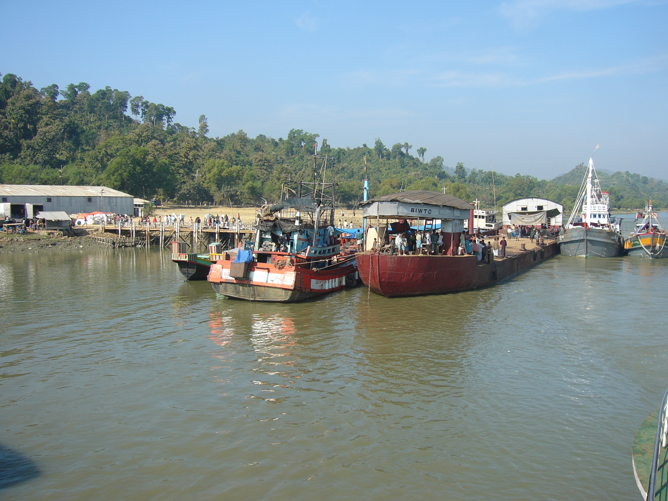 Teknaf, Bangladesh Author Shahnoor Habib Munmun